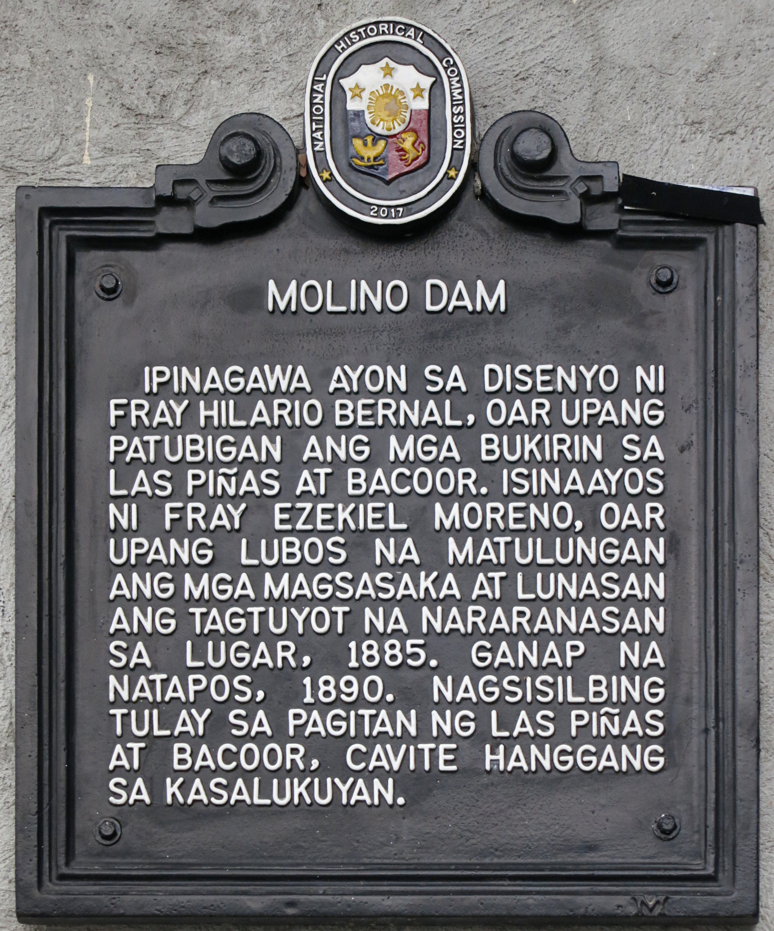 Historical marker installed by the National Historical Commission of the Philippines for the Molino Dam.